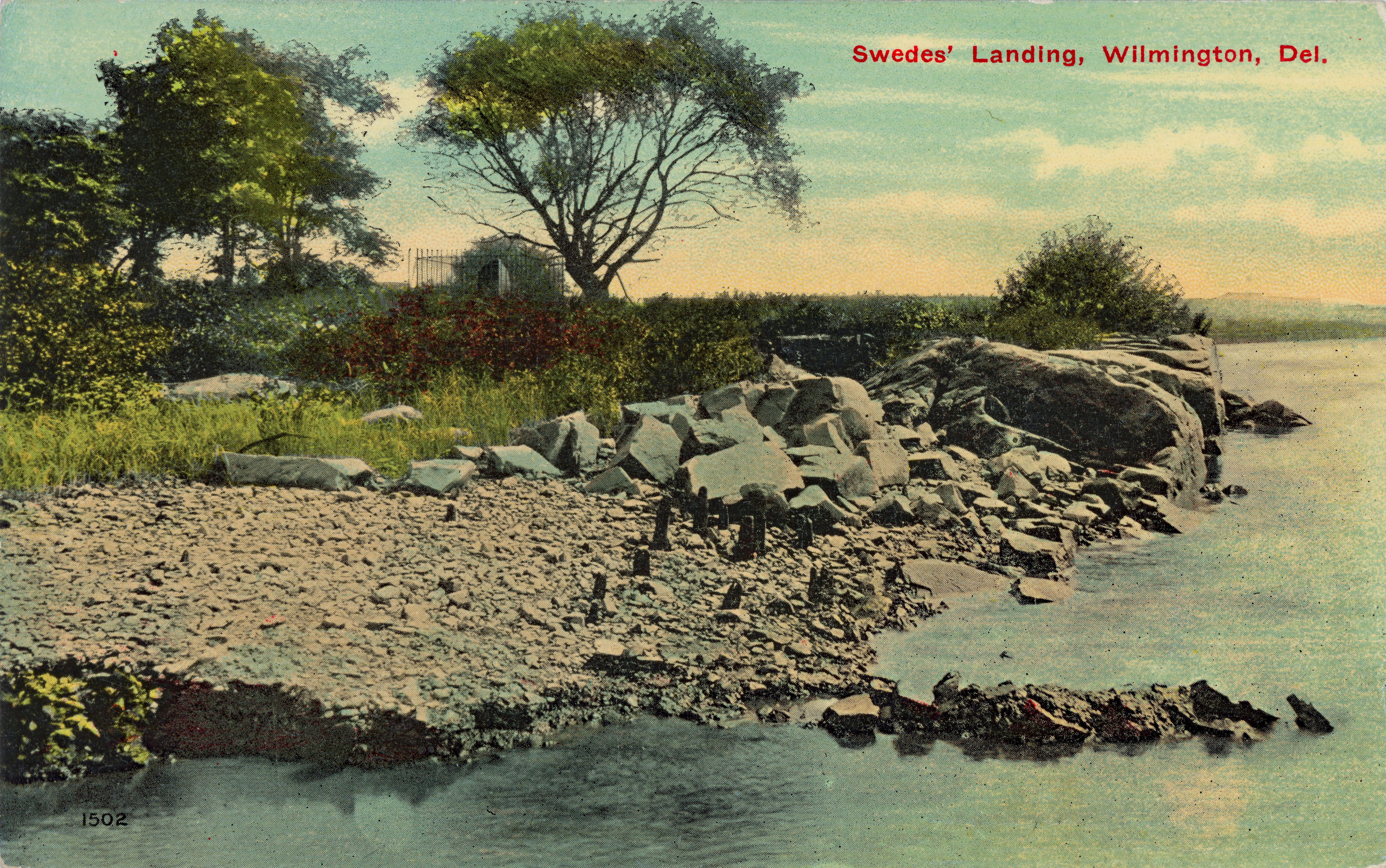 Front of a postcard with an early 20th century photograph of Swedes' Landing (also known as "The Rocks") along the Christina River in Wilmington, Delaware. This is the area where the ships Kalmar Nyckel and Fogel Grip arrived in March 1638 carrying Swedes and Finns to establish the New Sweden Colony in North America. Judging by the logo on the back of the postcard, it was published by the Souvenir Post Card Company as one of their "Souvochrome" branded cards. The used postcard was postmarked (on the backside) in Wilmington during May 1914. The Rocks/Fort Christina monument erected in March 1903 by the Delaware Society of Colonial Dames of America is visible, so the photograph dates between March 1903–May 1914. Today, Fort Christina State Park, a part of First State National Historical Park, includes much of the area in the photograph.